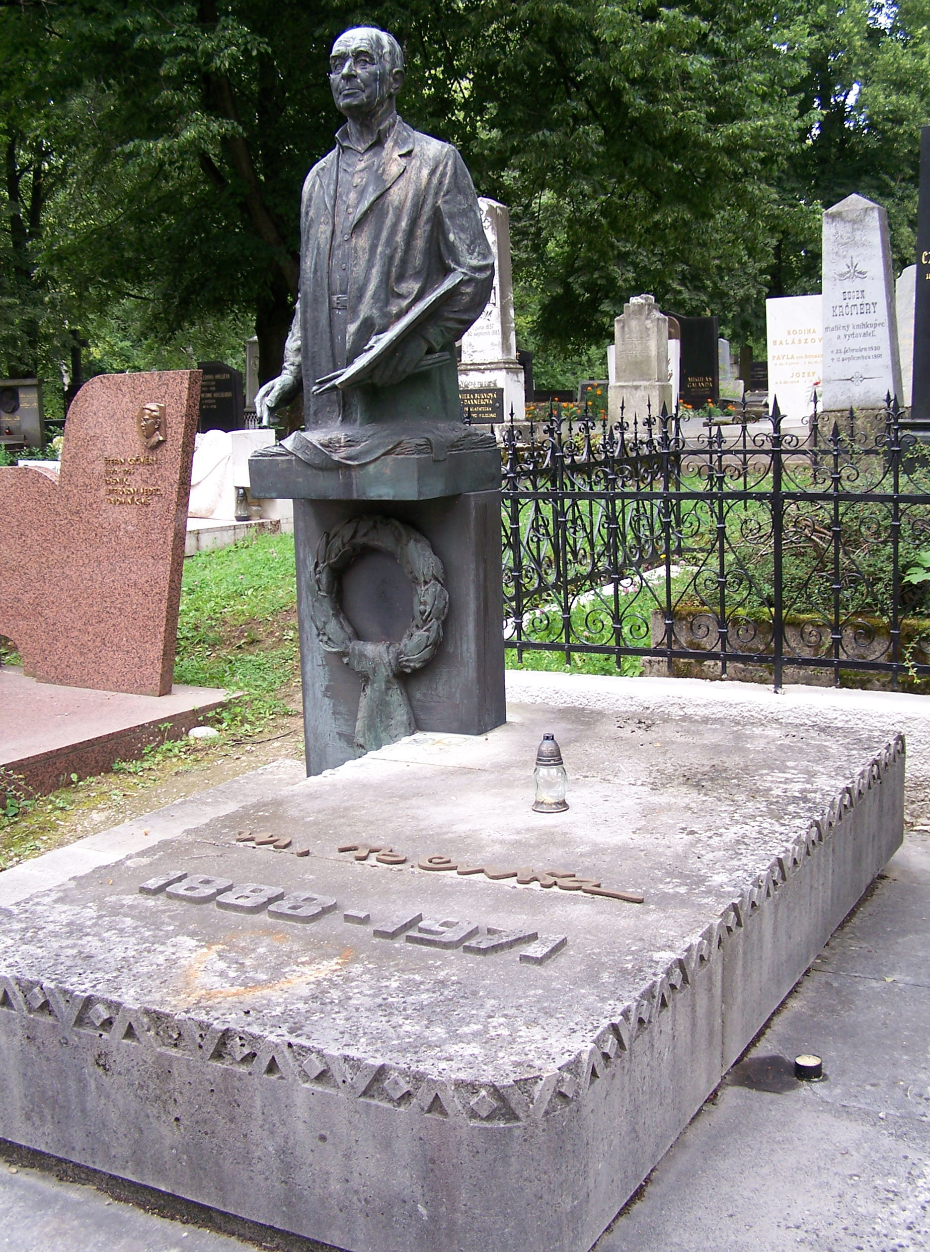 Grave of Martin Benka at the National Cemetery in Martin, Slovakia